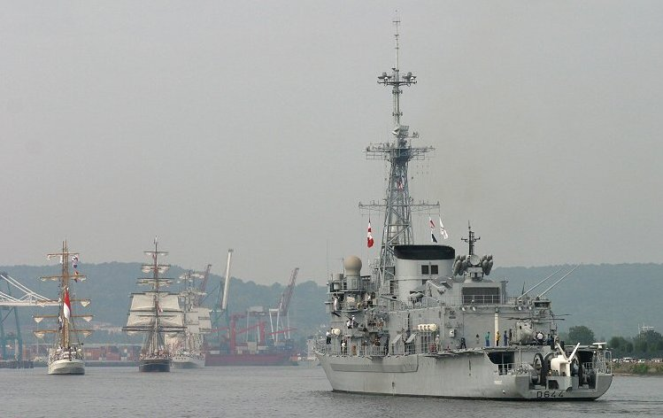 French frigate Primauguet frigate leaving Rouen during the "Armada" sea parade (July 2003). The tugged sonar is clearly visible at the aft (white submarine-shaped device).